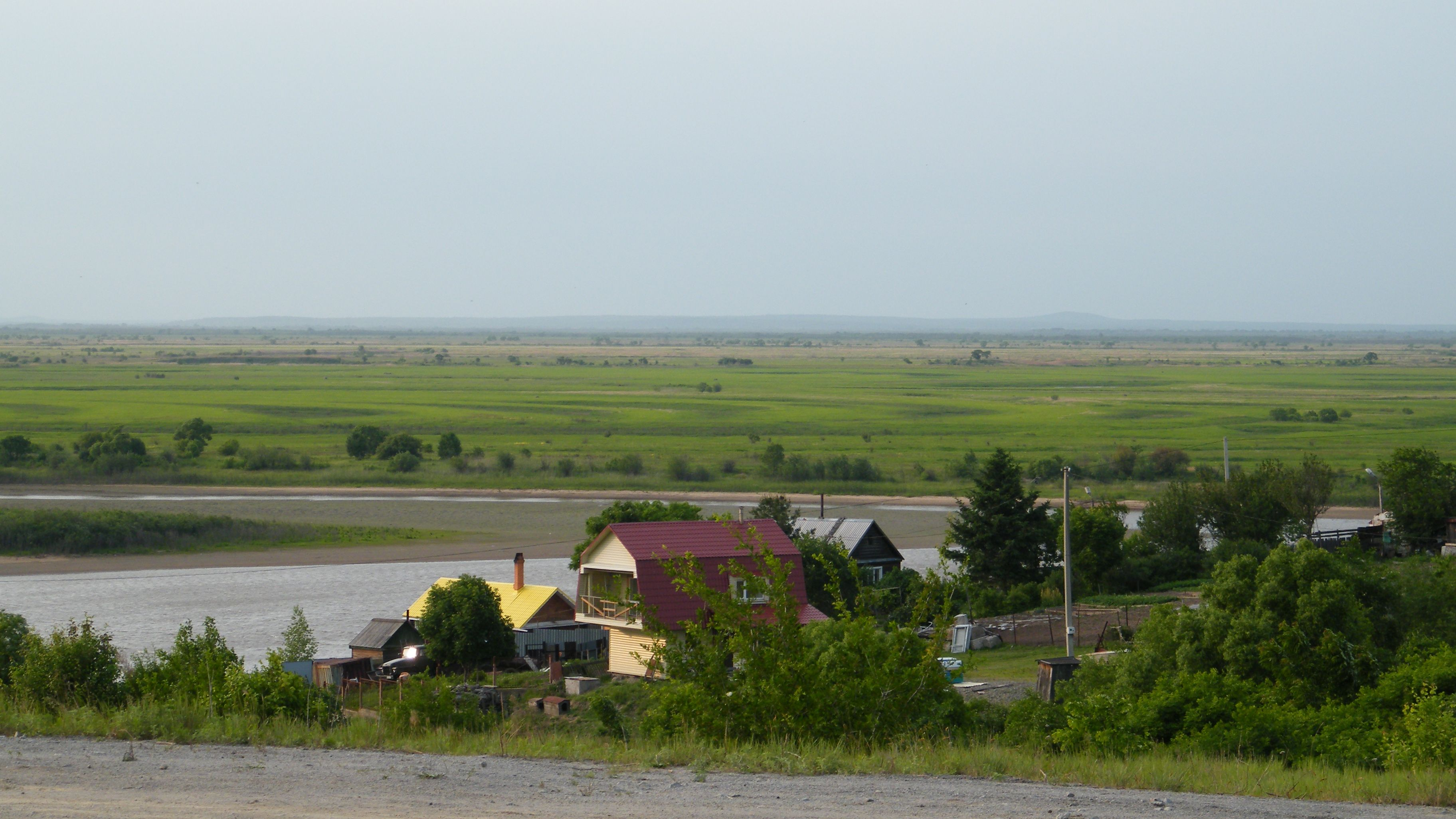 Долина Амура у села Петропавловка Хабаровский край